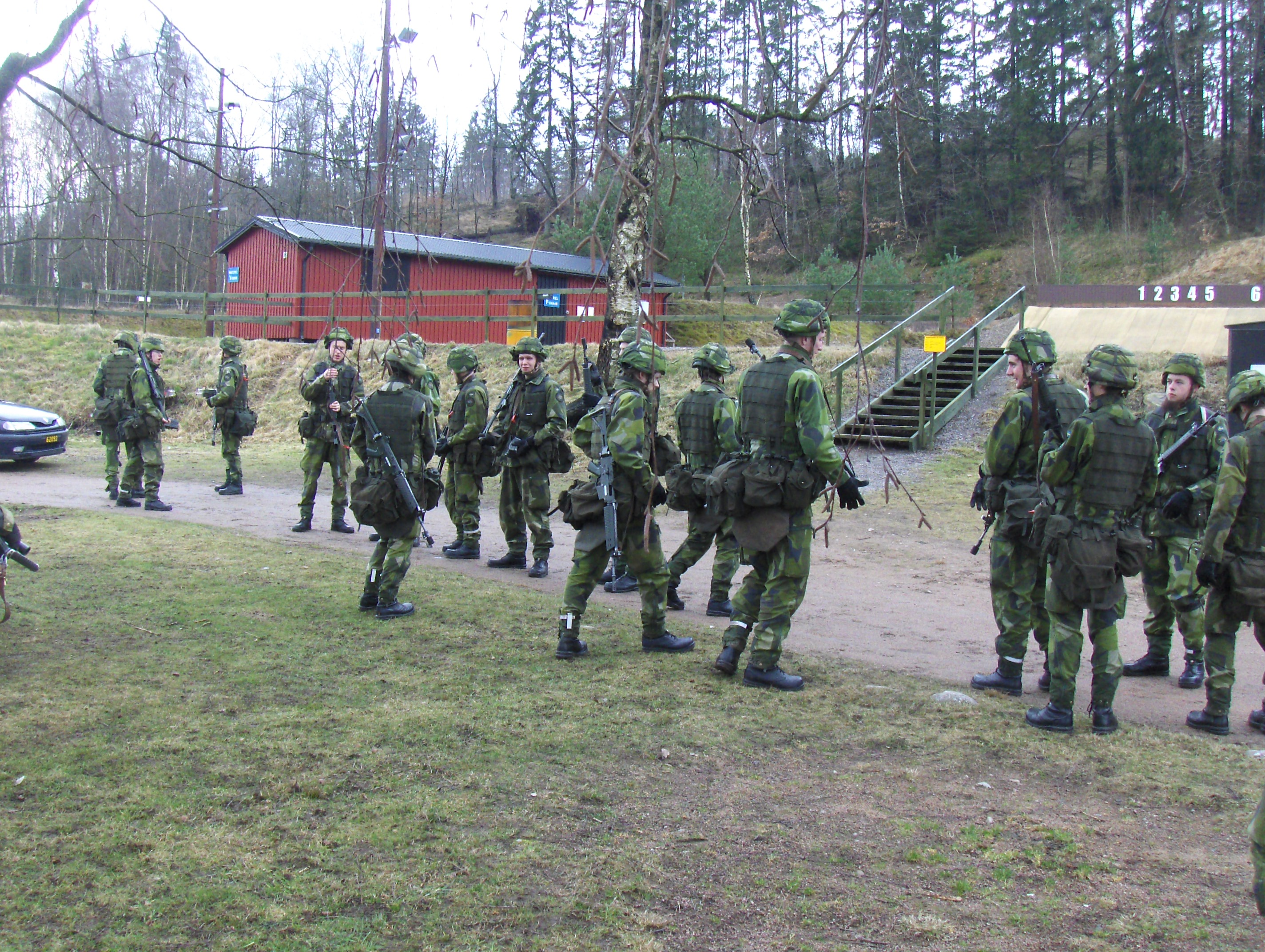 Swedish soldiers preparing their weapons before shooting